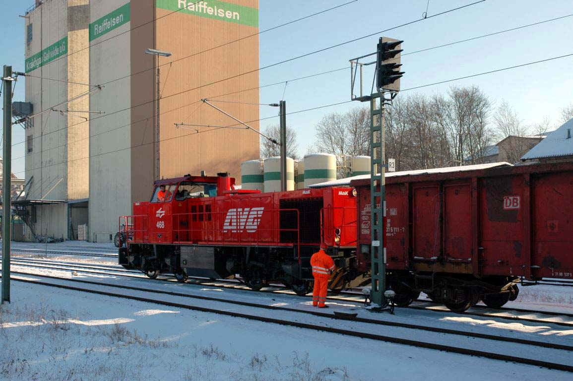 AVG's diesel locomotive no. 468, switching in Eppingen